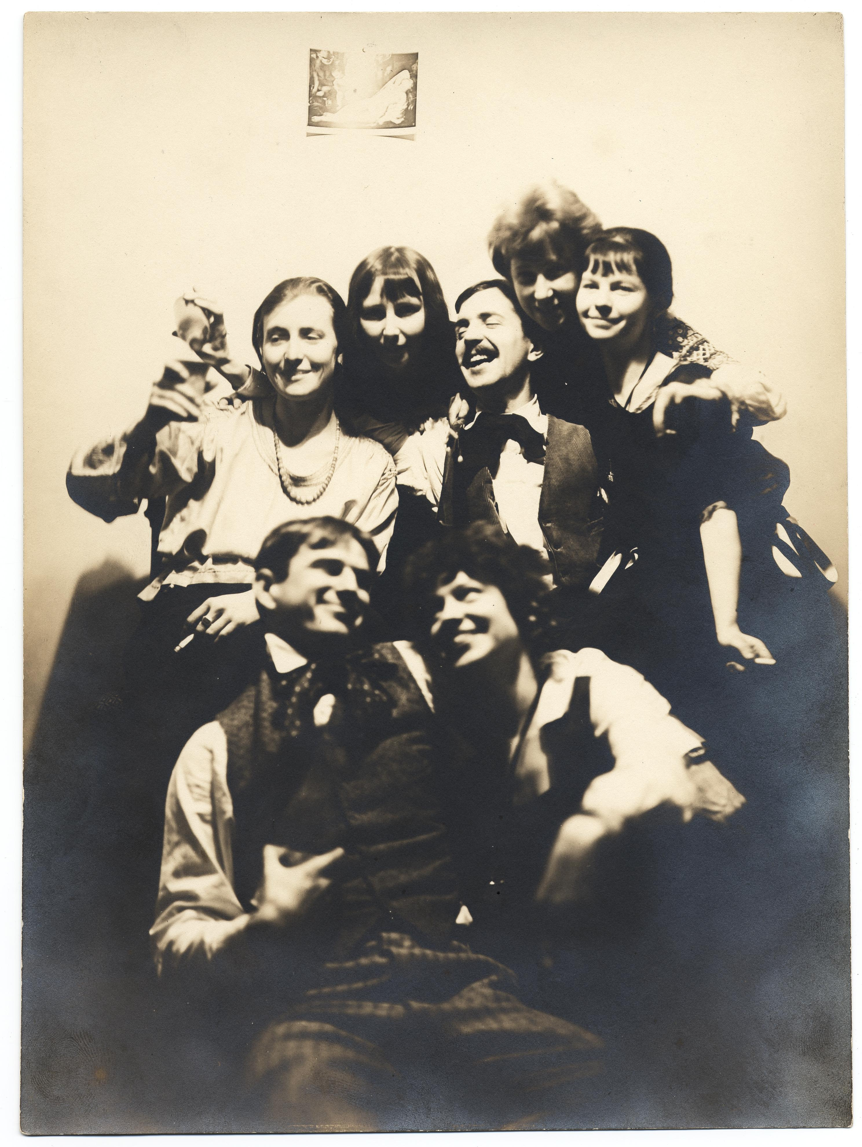 Description: Pictured are: Peggy Bacon, Alexander Brook, Isabella Howland, Katherine Schmidt Shubert, Betty Spencer, Niles Spencer and Dorothy Varian. Published in: Archives of American Art Journal v. 20, no. 3, p. 8. Howland, Isabella, 1895-1974 Bacon, Peggy, 1895-1987 Brook, Alexander, 1898-1980 Creator/Photographer: Yasuo Kuniyoshi Medium: Black and white photographic print Dimensions: 25 cm x 18 cm Date: c. 1921 Persistent URL: Repository: Archives of American Art Collection: Katherine Schmidt papers, circa 1921-1971 Accession number: AAA_schmkath_8692